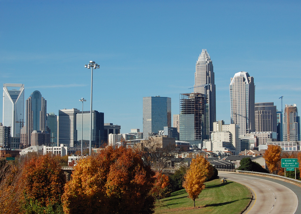 Skyline of Charlotte, North Carolina. Taken from Central Ave.